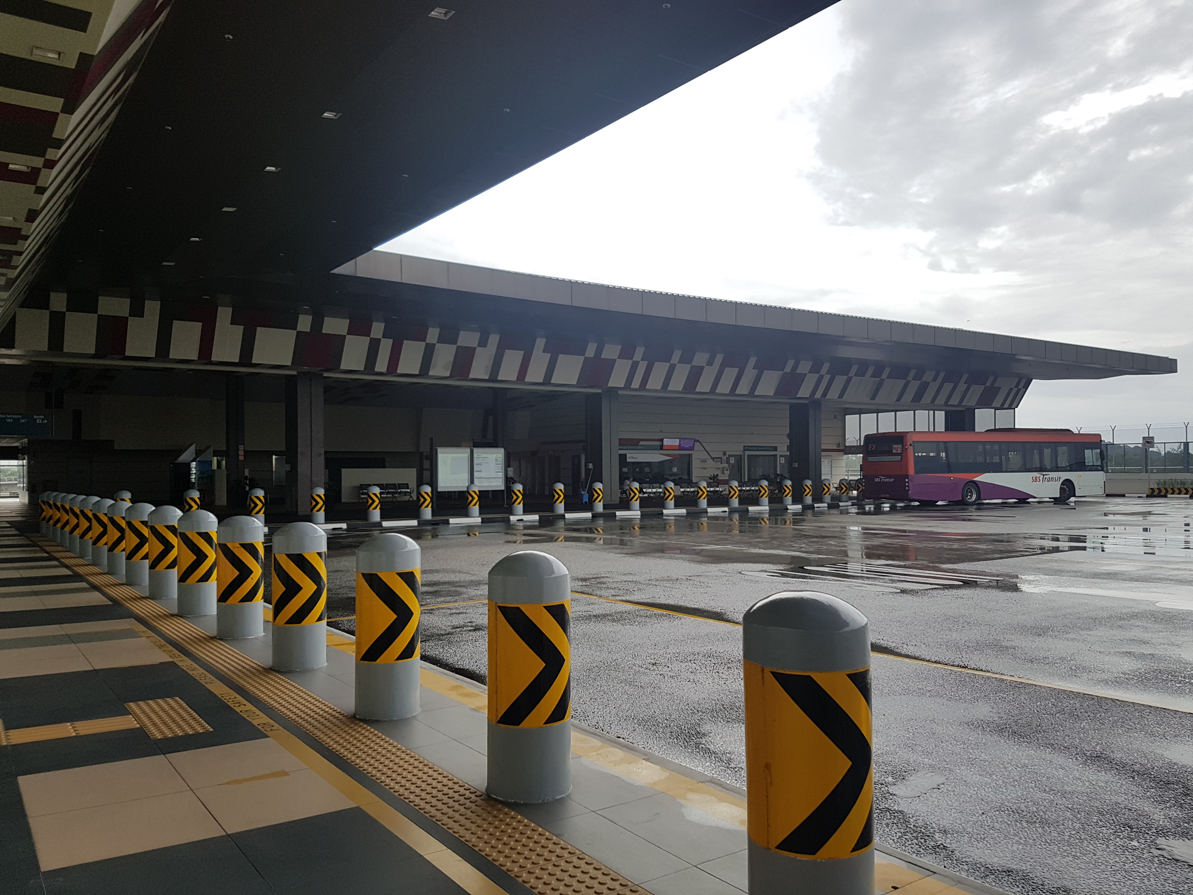 View of the boarding berth of Tuas Bus Terminal, where commuters can board buses. This photograph was shot from the alighting berth of the same bus terminal.